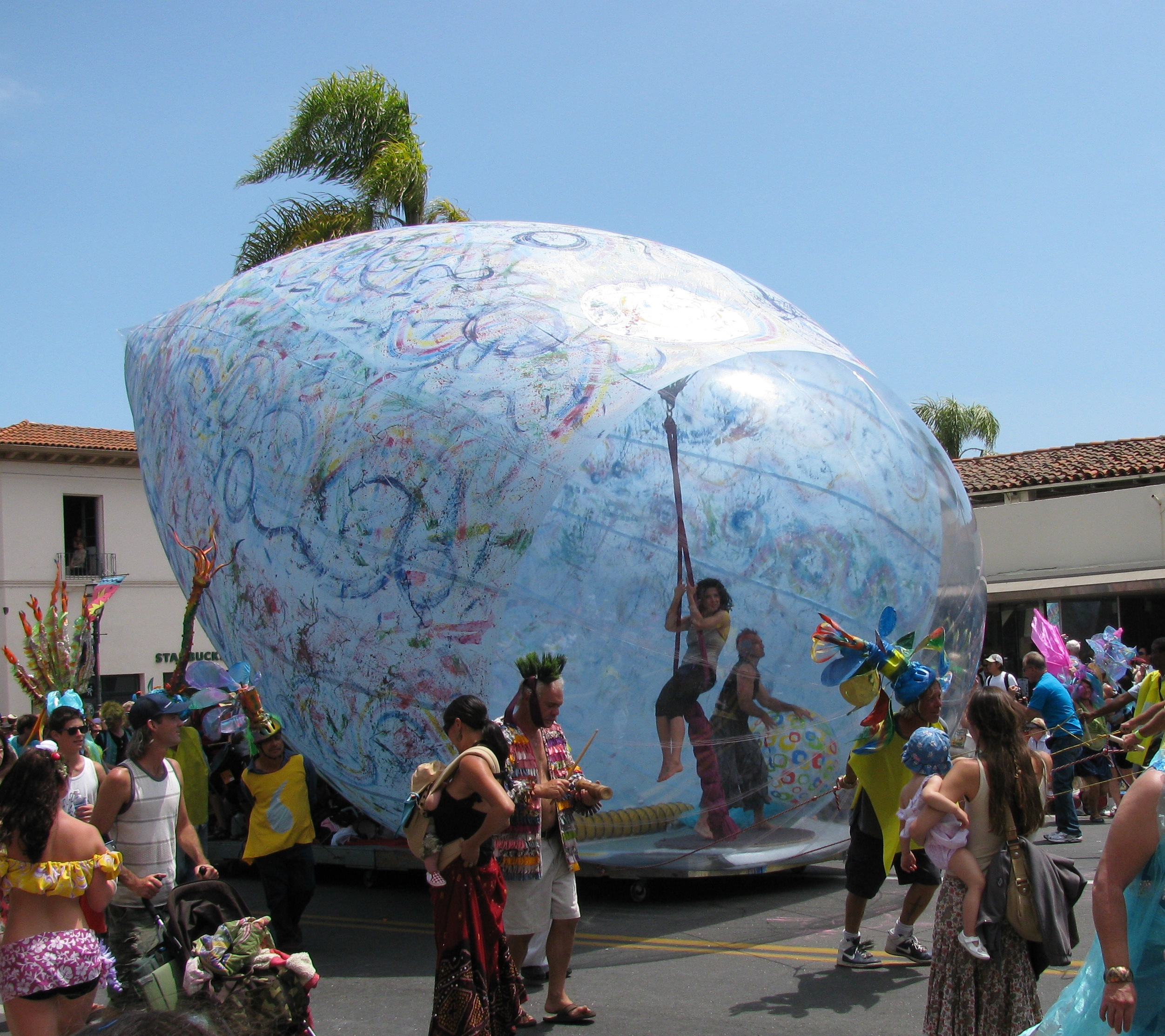 A float in the Santa Barbara Summer Solstice Parade, 2009; photo by self; GFDL-ccsa